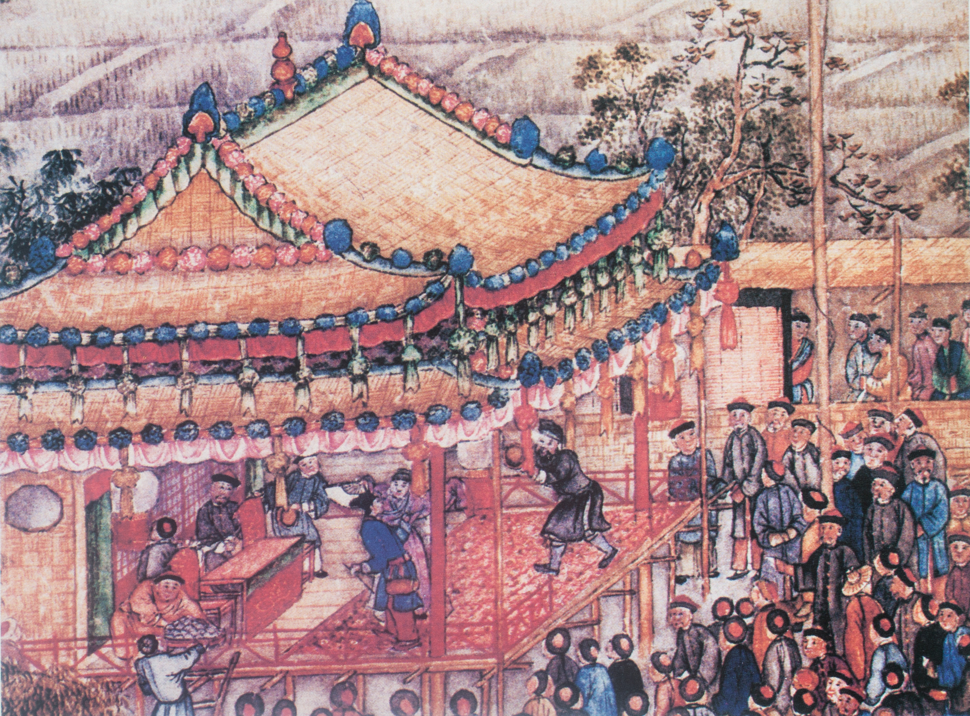 Detail of scroll about Suzhou made on the order of Emperor Qianlong